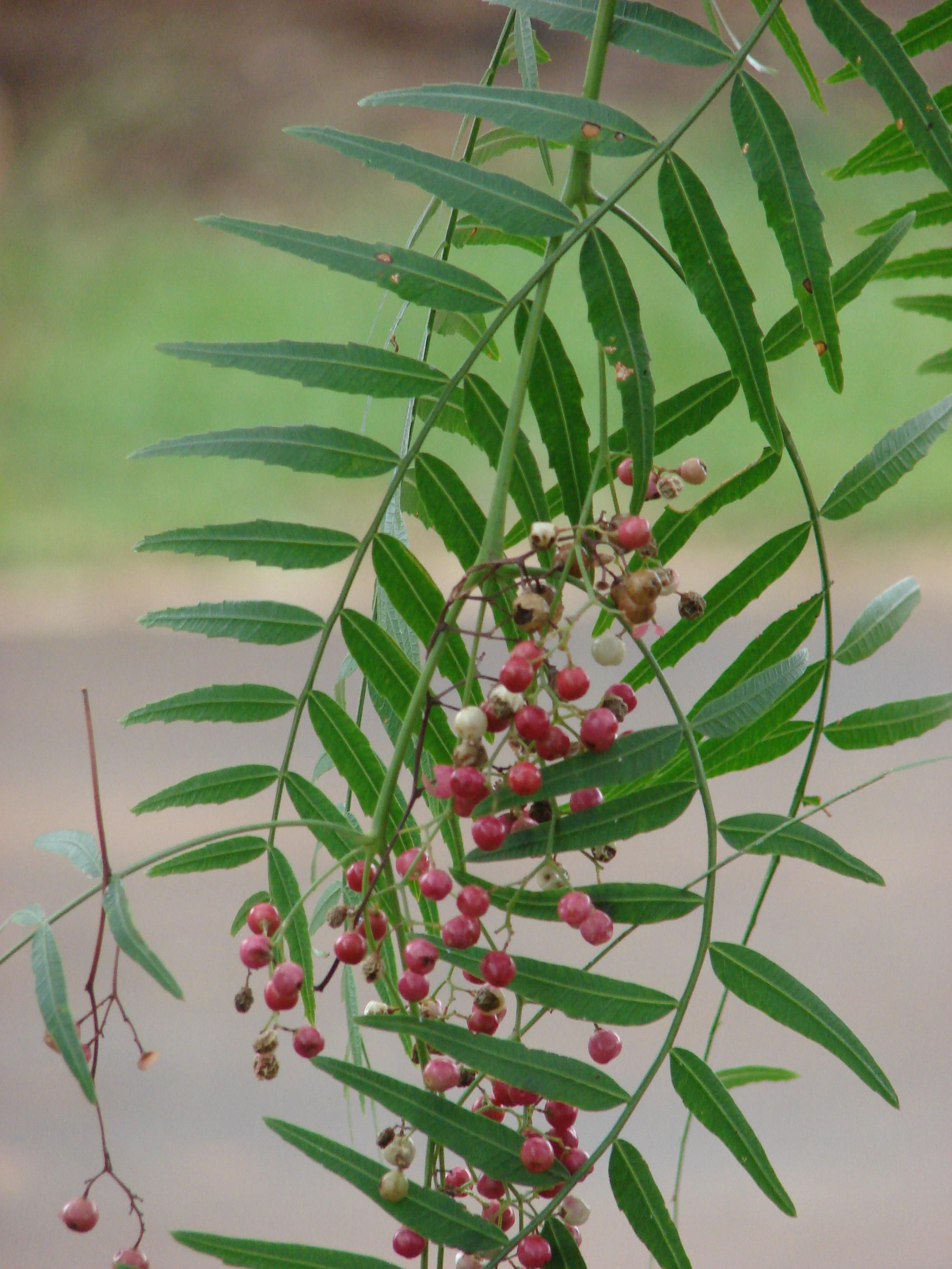 Schinus molle (fruit and leaves). Location: Maui, Omaopio